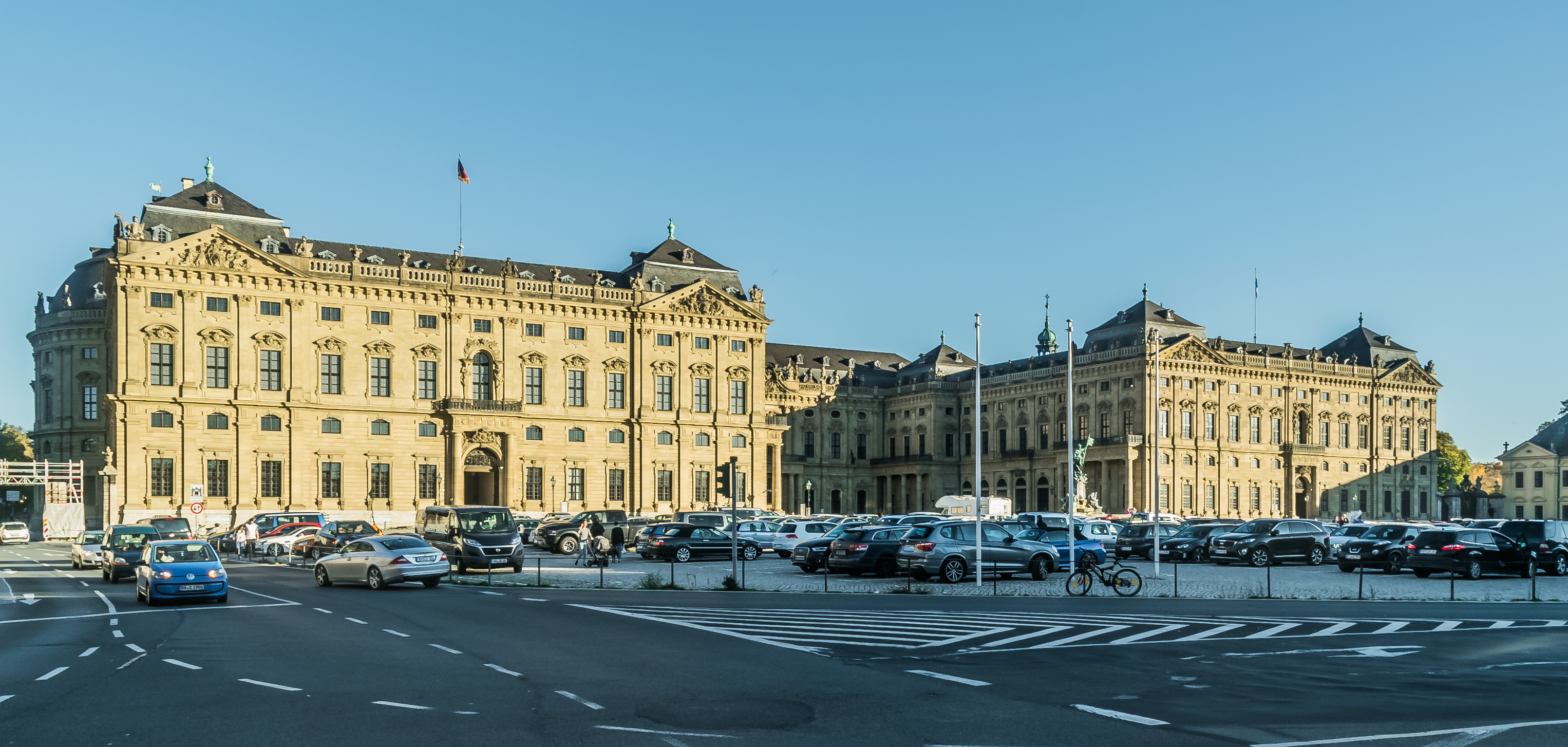 West facade of the Würzburg Residence, Bavaria, Germany This place is a UNESCO World Heritage Site, listed as Würzburg Residence.